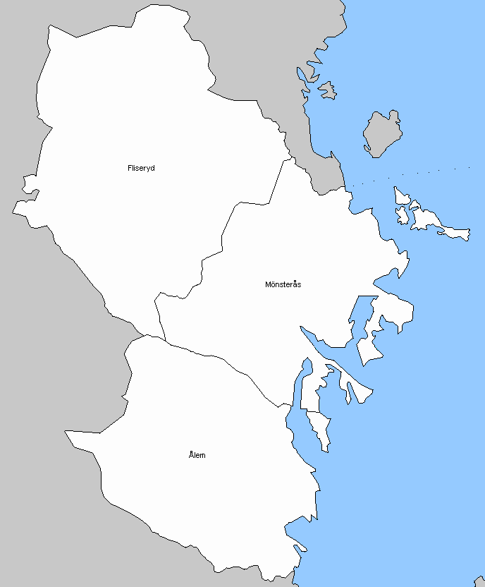 Parishes in Mönsterås' municipality